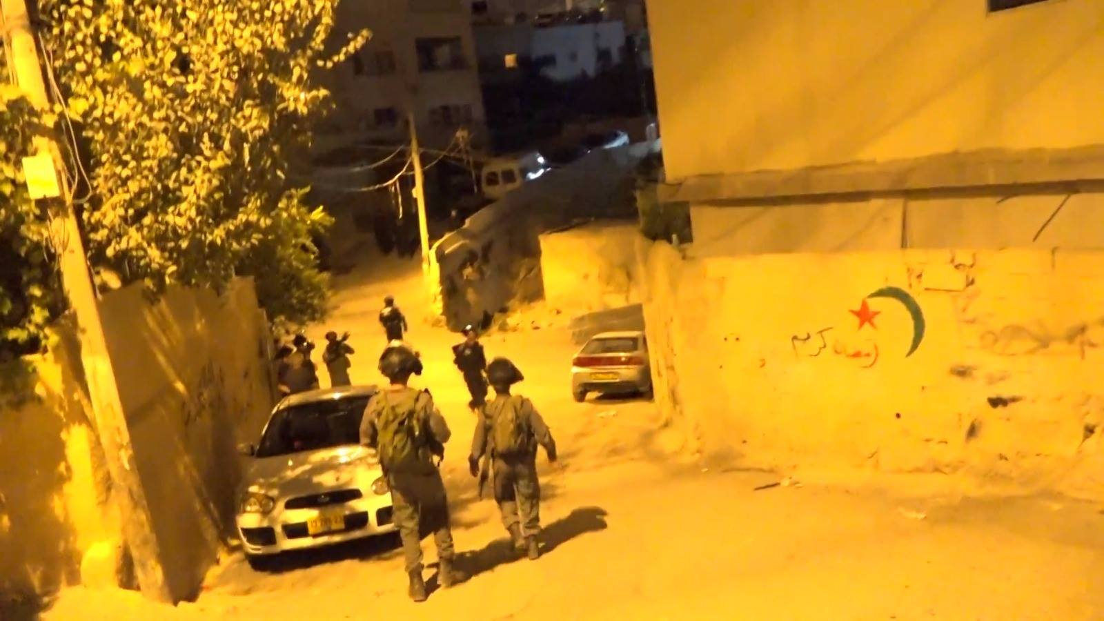 Wanted arrest in East Jerusalem at February 2016